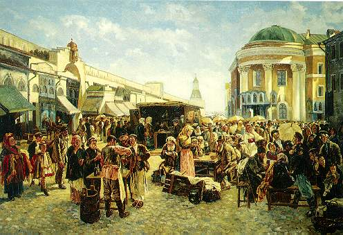 V.I. Pozdneev. Title